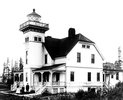 Public Domain statement here; The original 1902 Sentinel Island Light